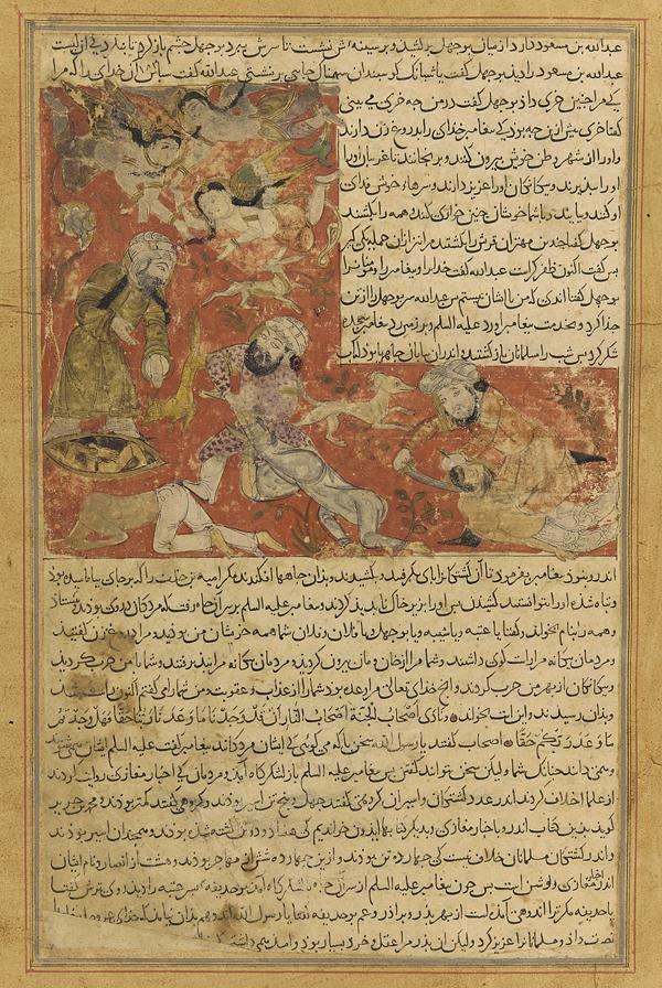 Folio from a Tarikhnama (Book of history) by Balami